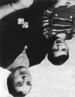 A photo of young Al Capone with his mother